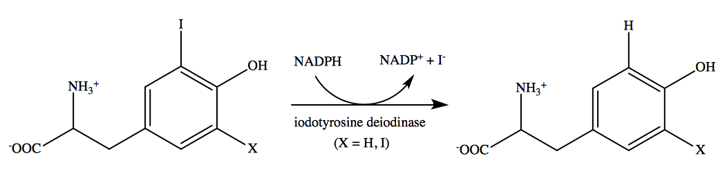 This is the corrected reaction scheme for the enzyme iodotyrosine deiodinase. There was a typo in the other figure I posted. I had Ph as a member on the substrate ring instead of OH, as it should be.